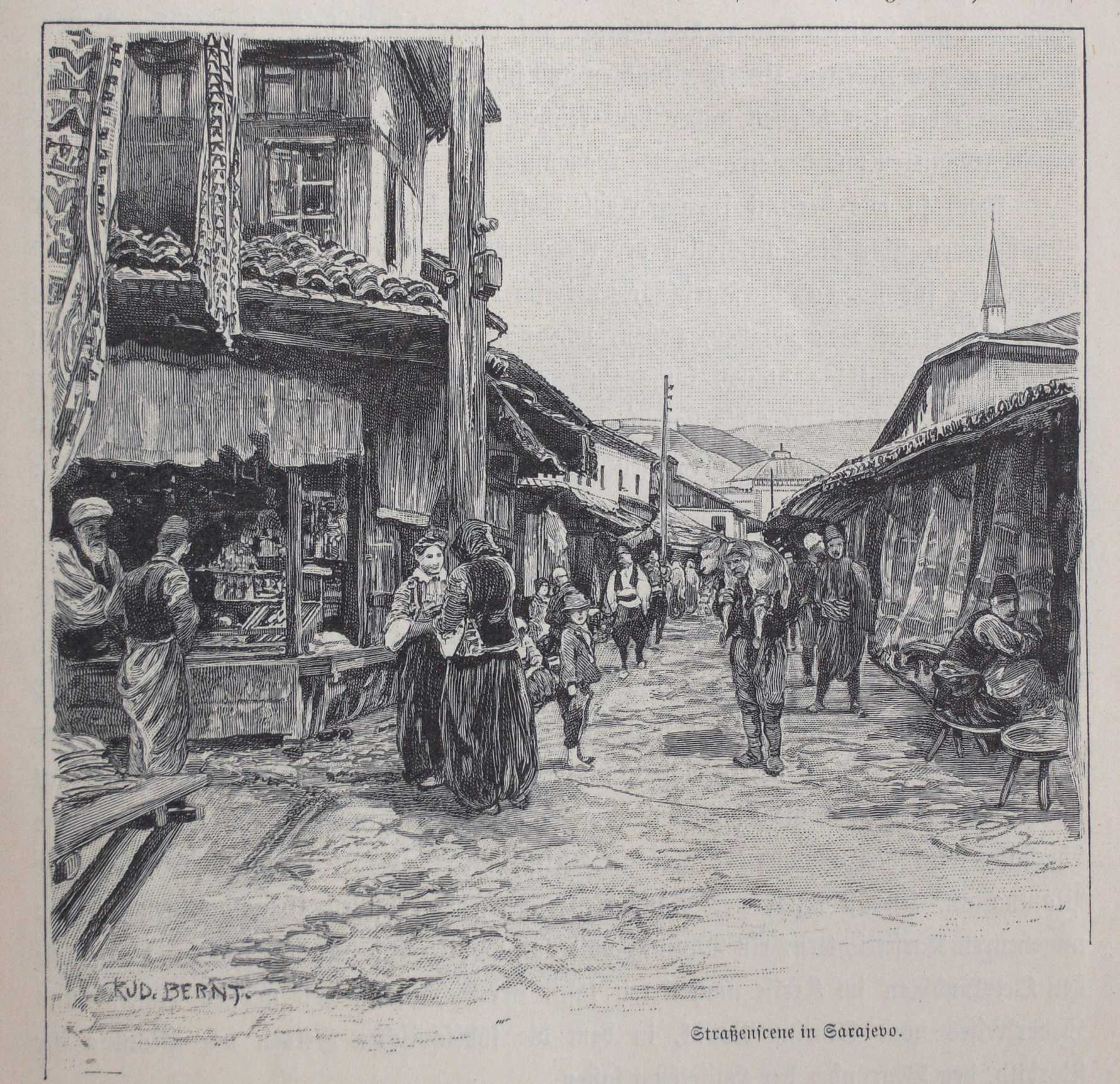 Street in Sarajevo approx. 1900.